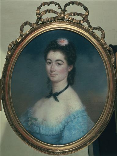 Marie Caroline Du Fresnay, daughter of Marie-Louise-Françoise du Fresnay, née Daminois, and of French author Honore de Balzac